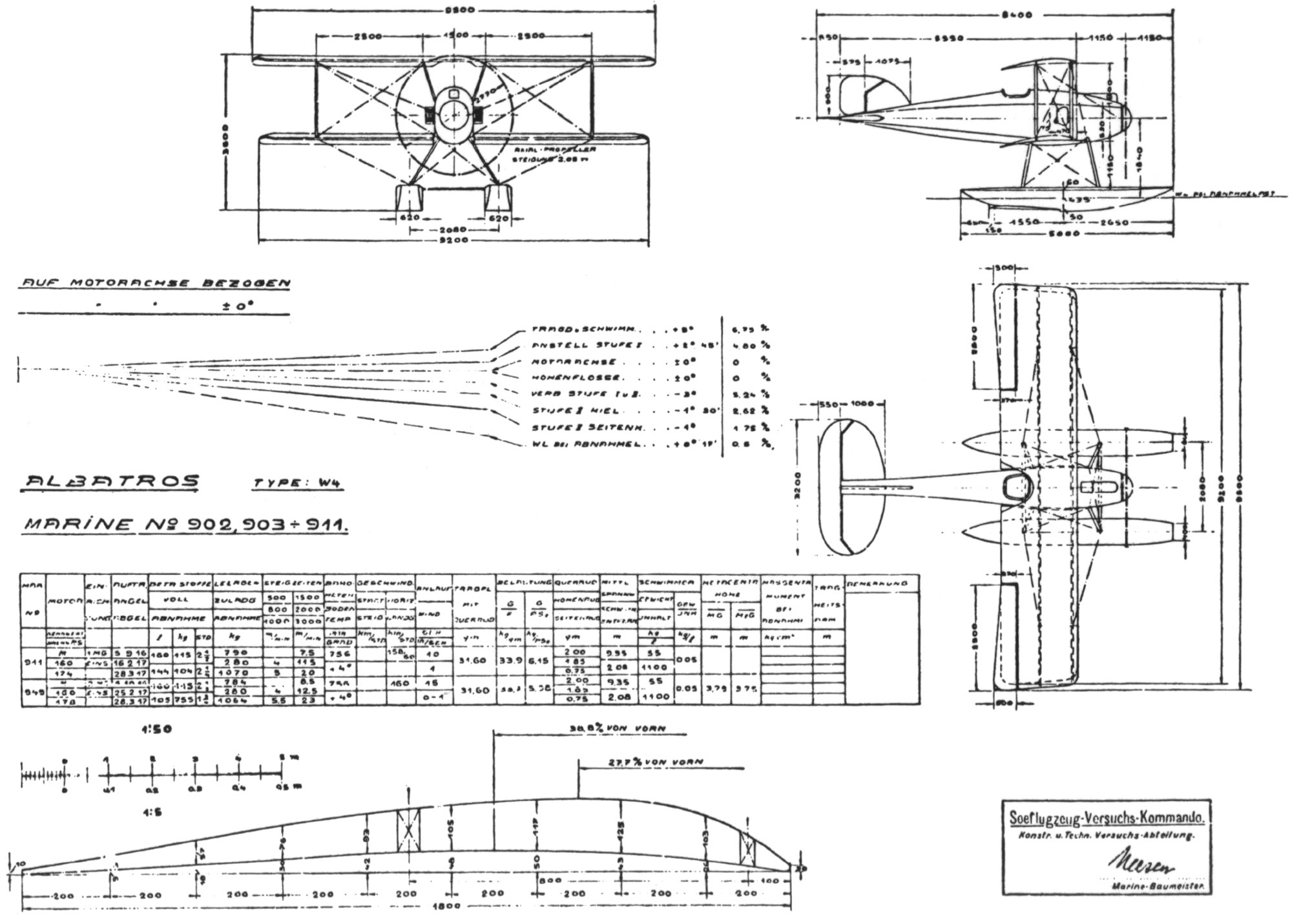 Albatros W.4 German World War 1 single seat seaplane